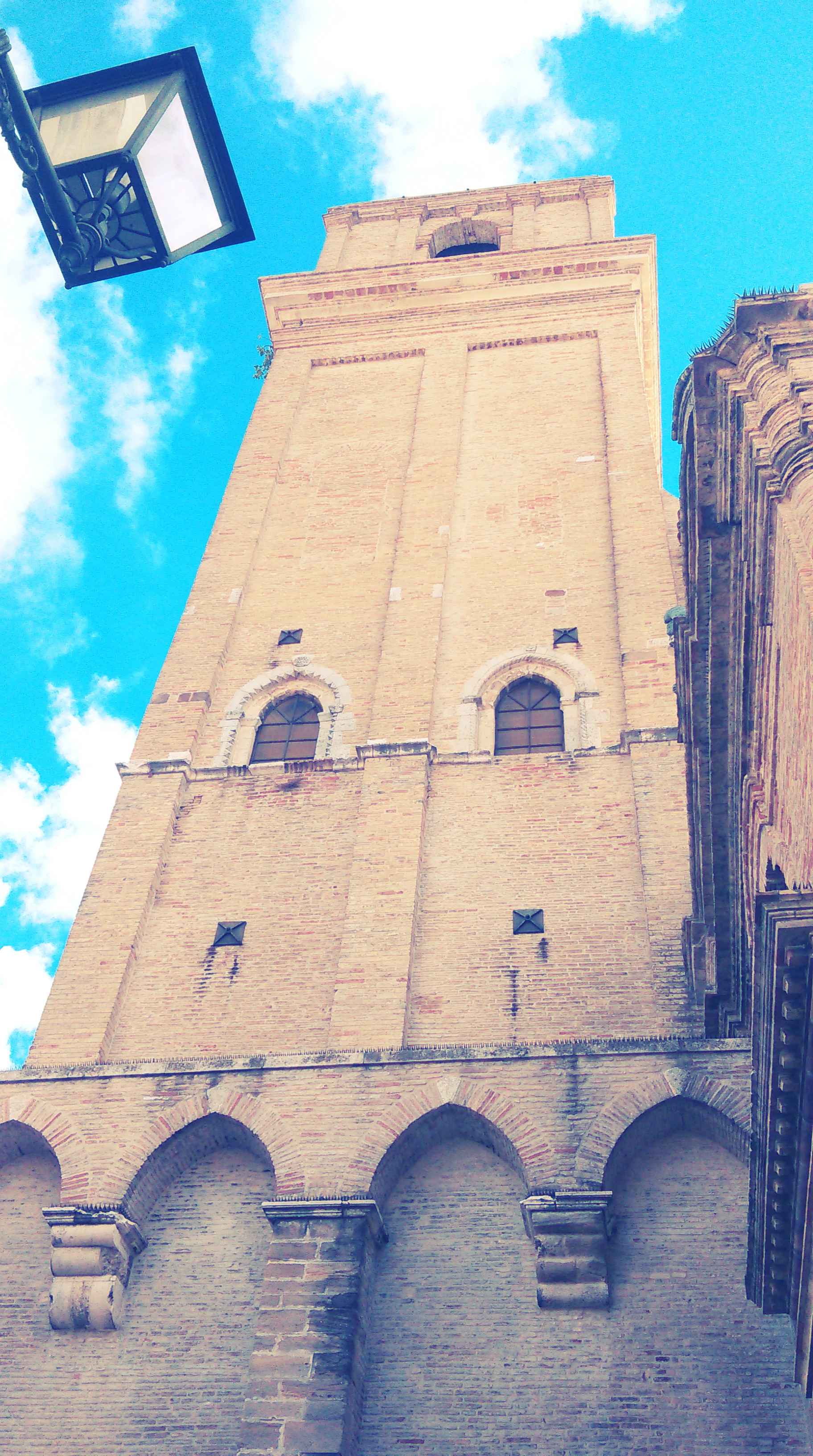 Steeple of the Chiesa di Santa Maria Maggiore, Vasto, Italy